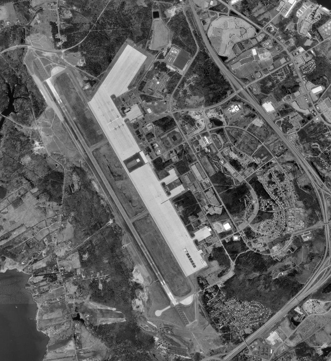 USGS digital orthophoto of Portsmouth International Airport at Pease / Pease Air National Guard Base (formerly Pease Air Force Base), in Portsmouth, New Hampshire, United States